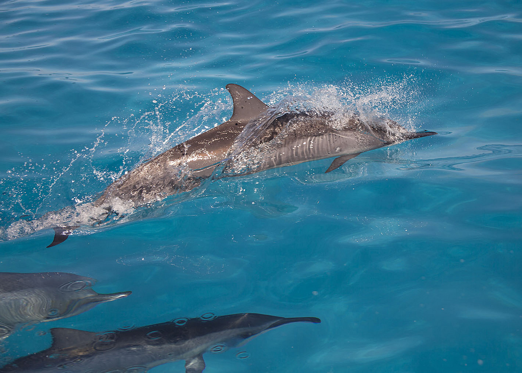 Midway Atoll National Wildlife Refuge, Papahānaumokuākea Marine National Monument